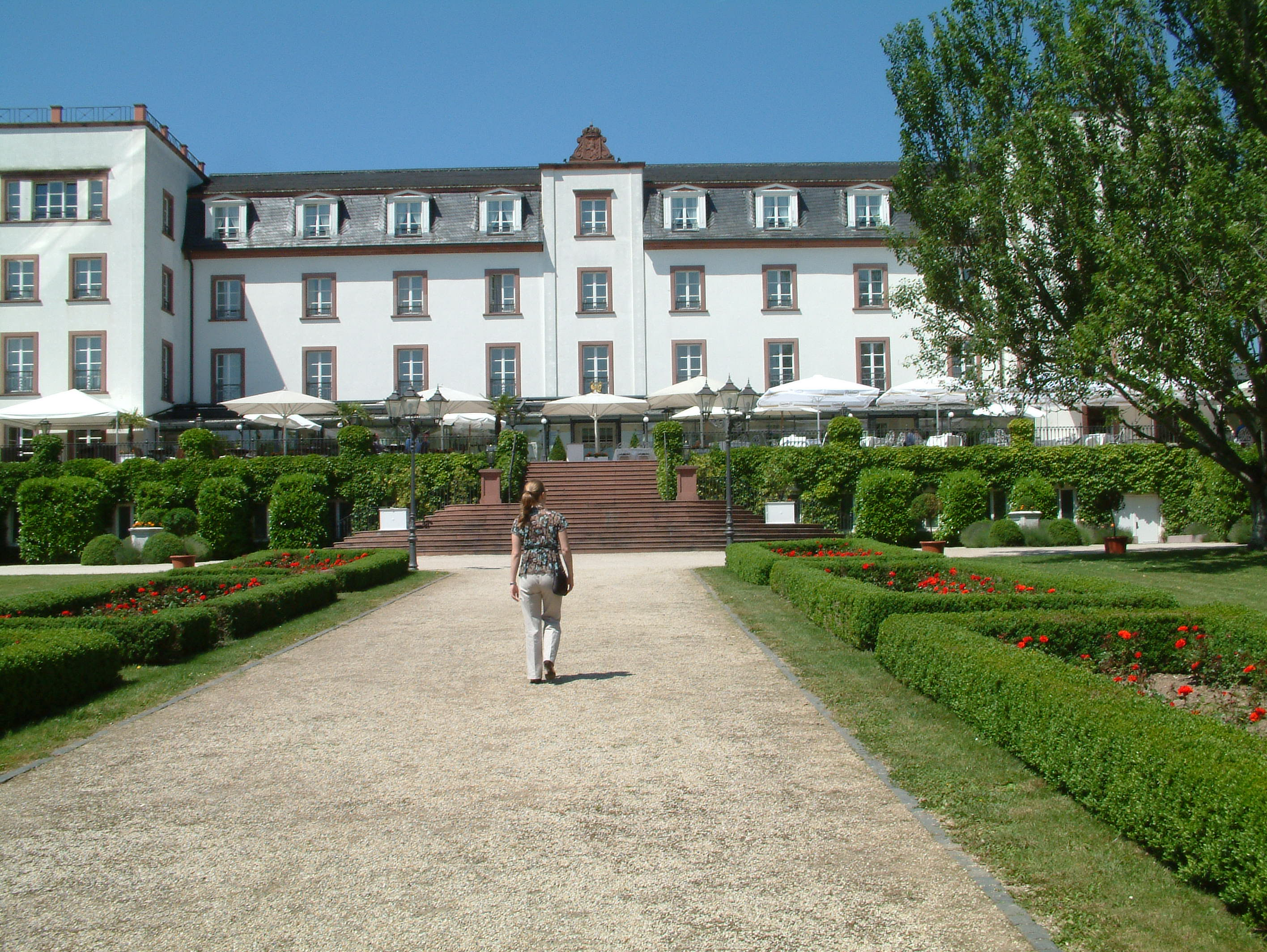 Kempinski Castle Reinhartshausen